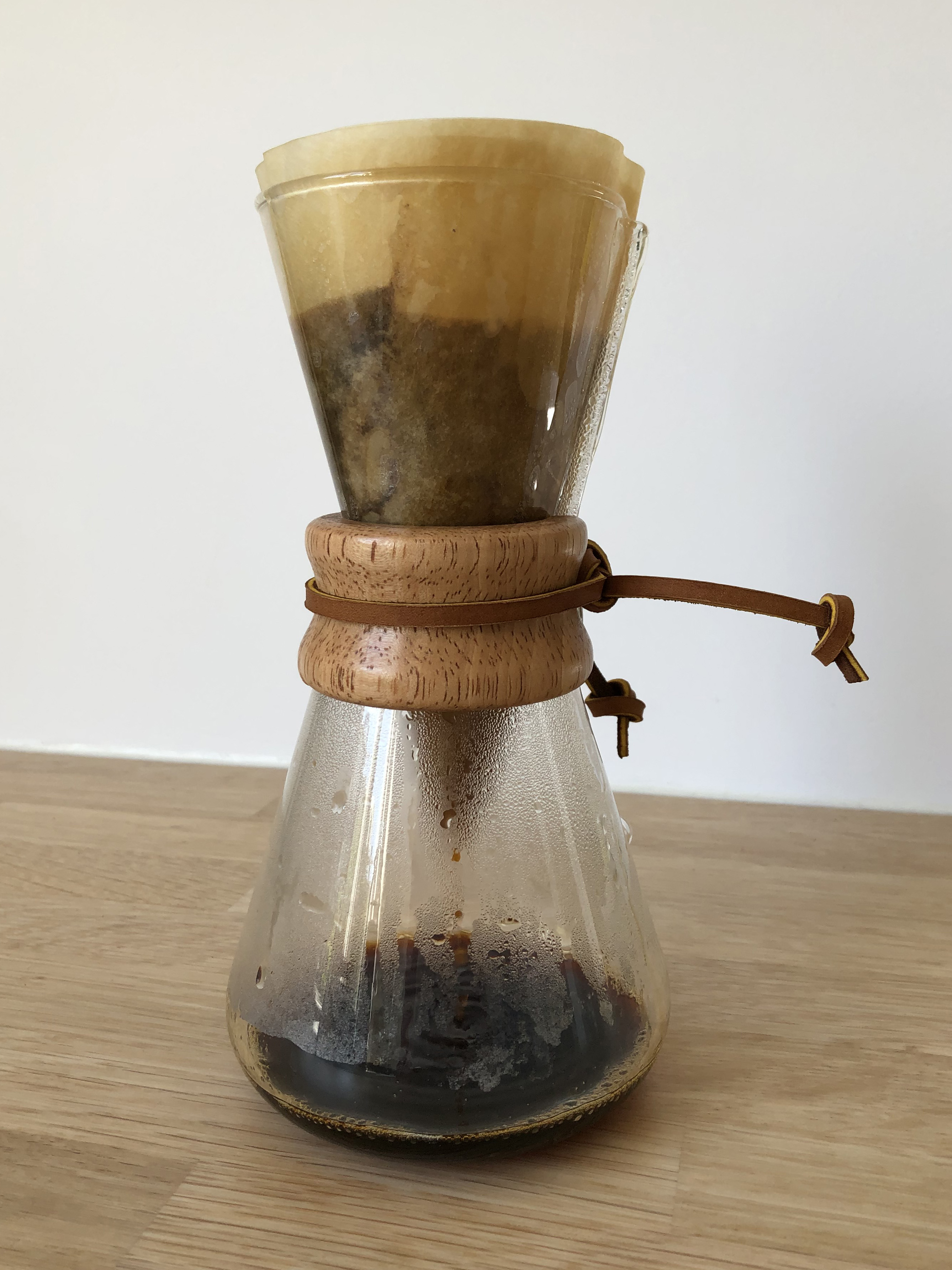 A Chemex coffeemaker with a typical 'half moon' coffee filter and dripping coffee.